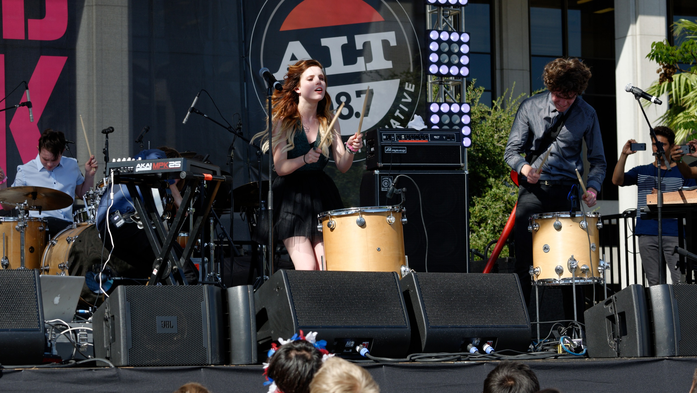 Echosmith performing live at Grand Park in downtown Los Angeles California on Friday July 4th, 2014